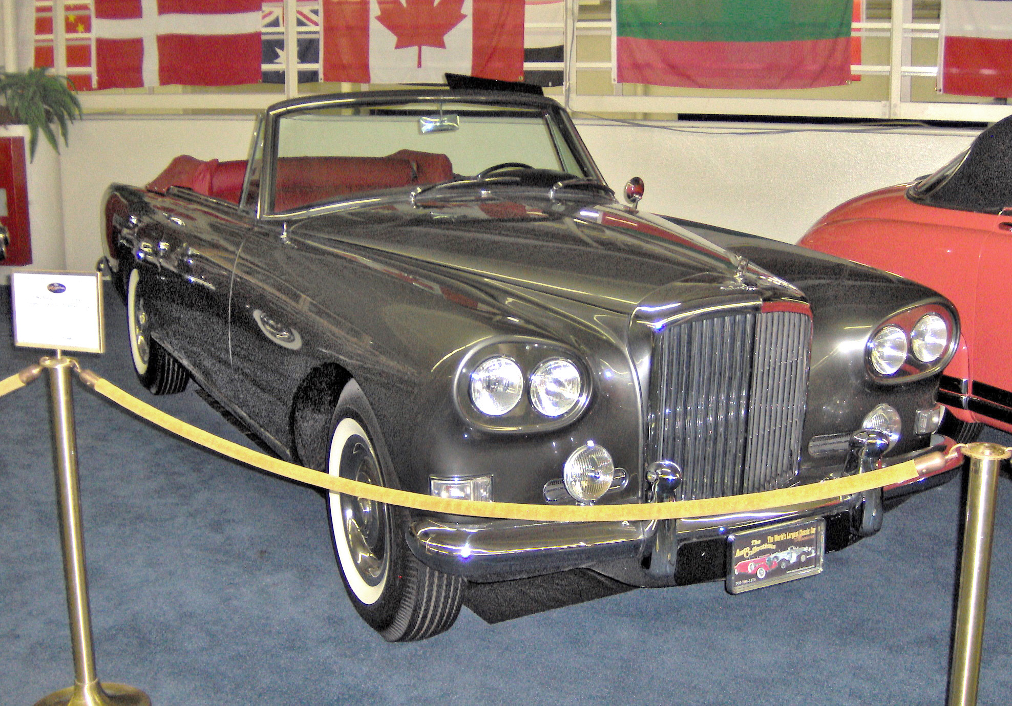 1964 Bentley S3 Continental Mulliner Park Ward Drophead Coupe